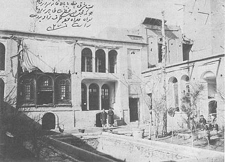 Prison of Tahirih